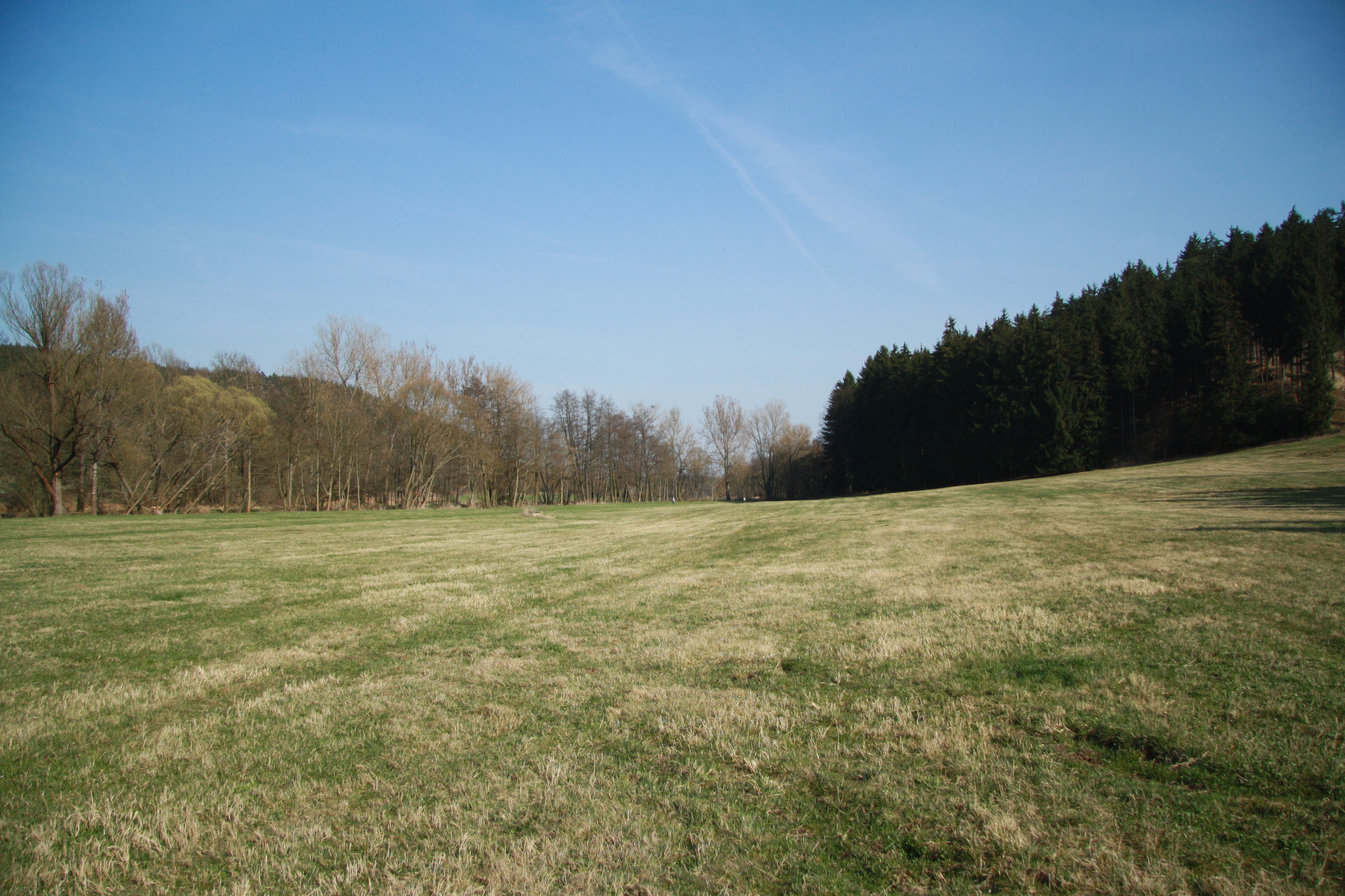 Overview of Hluboček, Třebíč District.